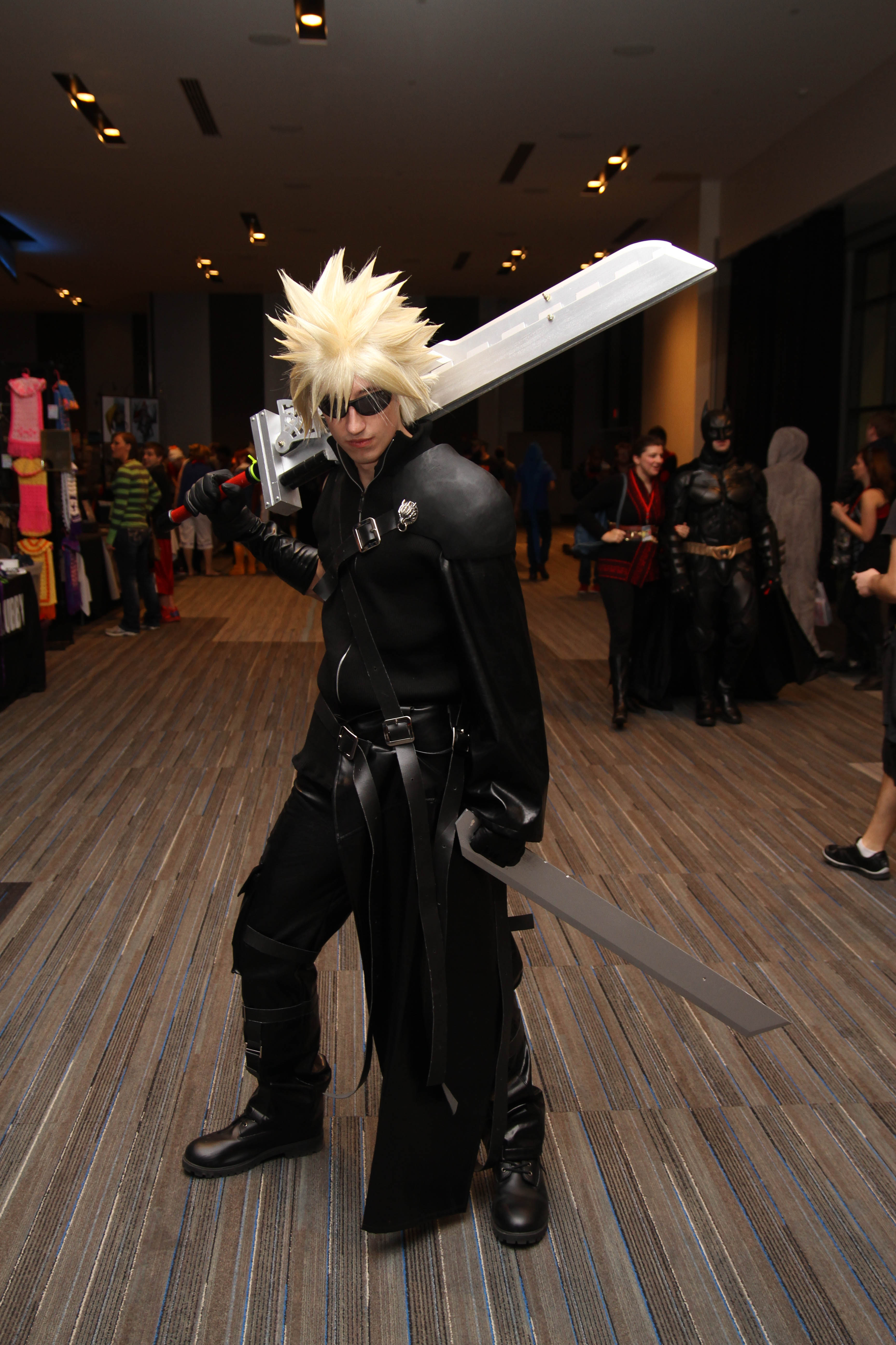 Taken on January 18, 2013 Canon EOS 7D